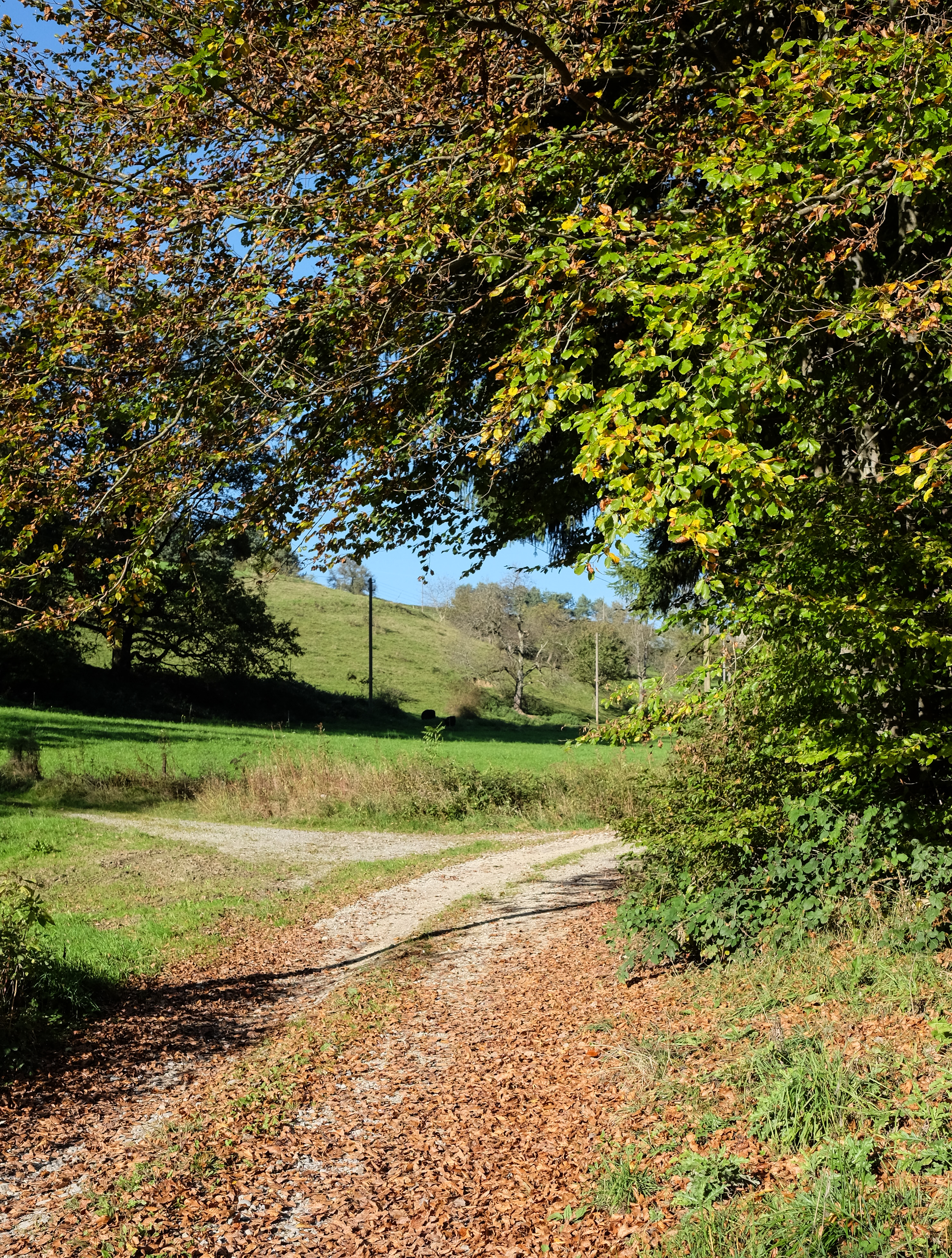 Deggenhausertal, Franziskusweg, district Bodenseekreis, Baden-Württemberg, Germany